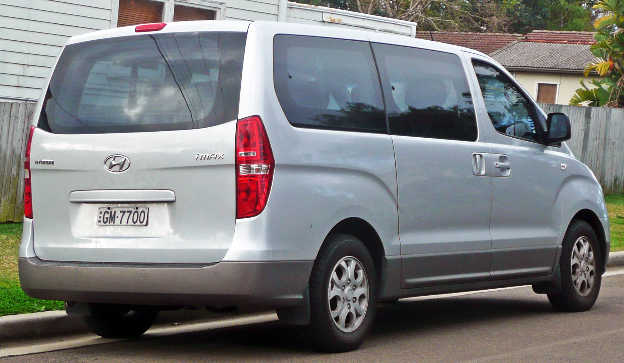 2008–2010 Hyundai iMax (TQ-W) van. Photographed in Cronulla, New South Wales, Australia.